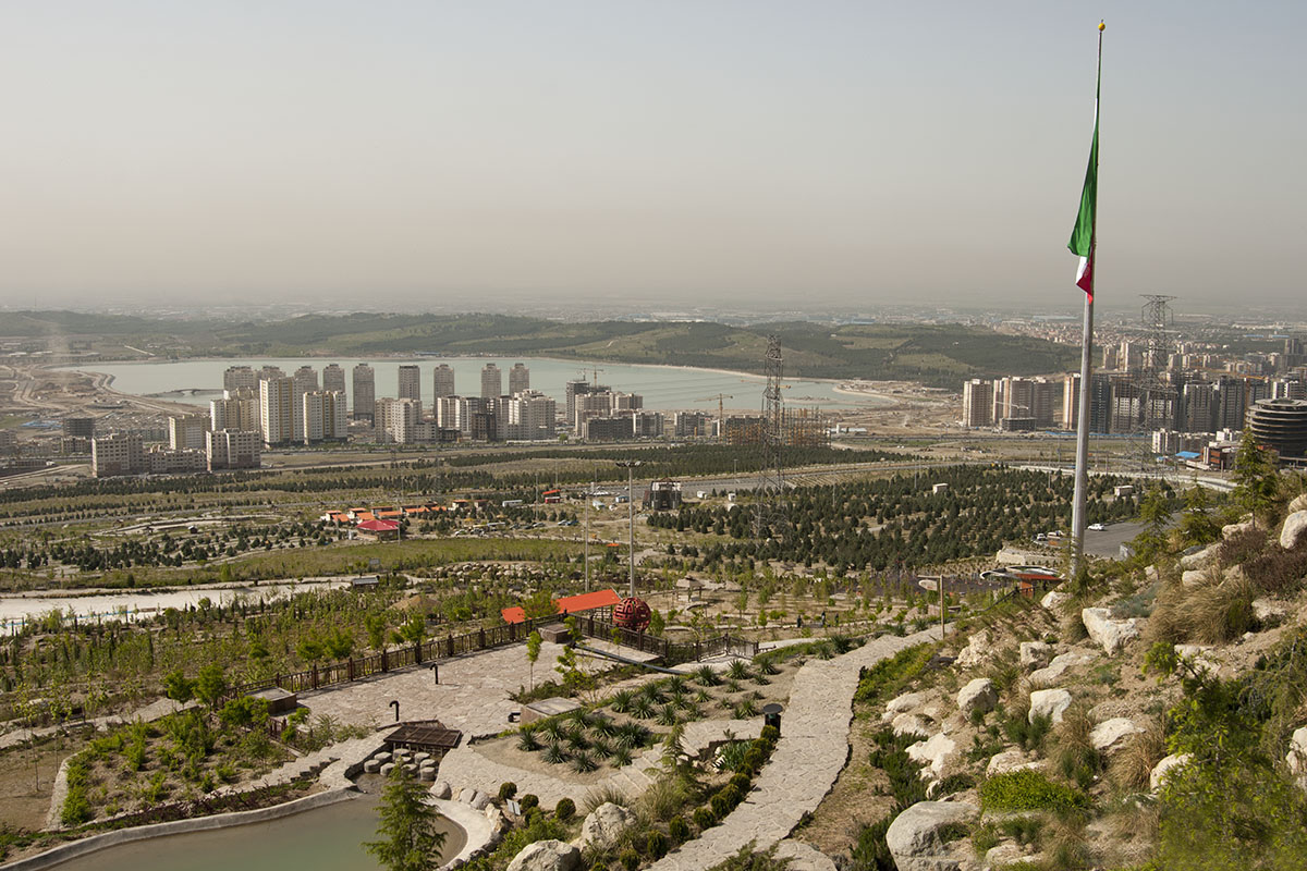 Iran - Tehran - Zone 22 - Chitgar lake - Water fall Park